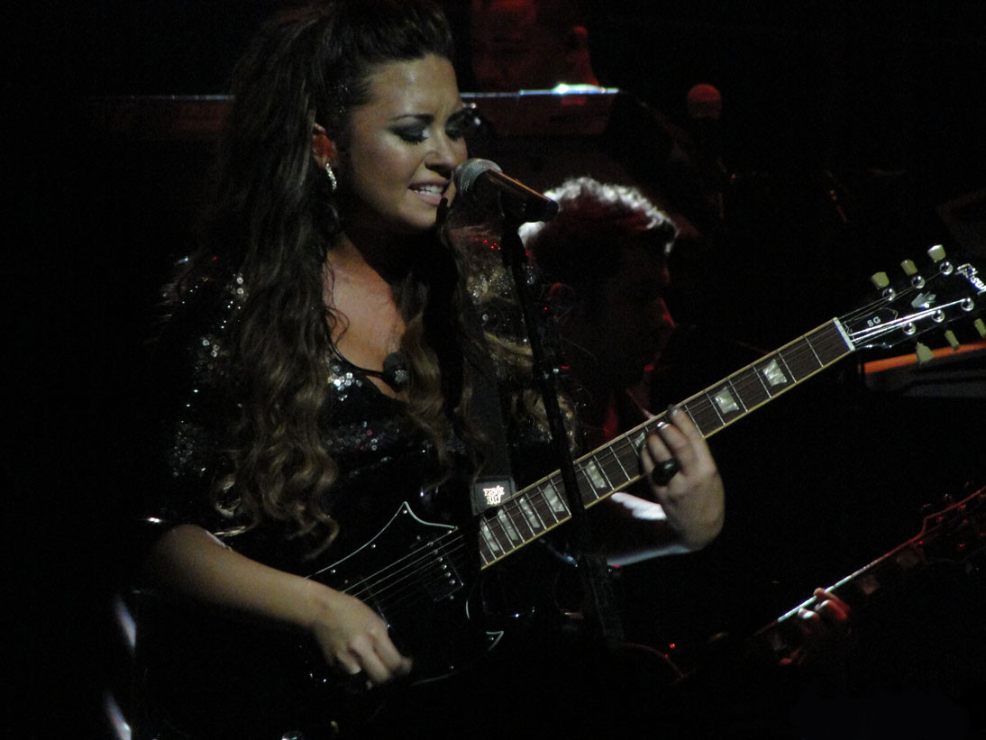 Demi Lovato performing "Don't Forget" at Club Nokia in Los Angeles